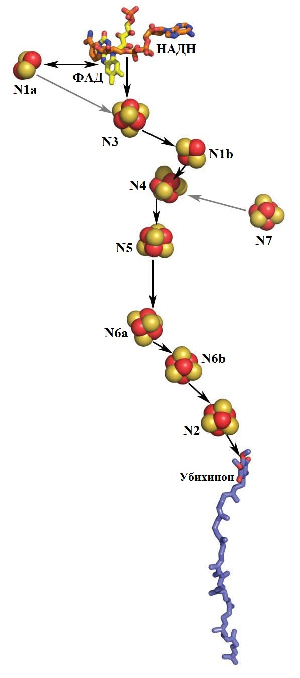 Electron transport chain of complex I. Grey arrows represent impossible or currently non existing paths of electron transfer.